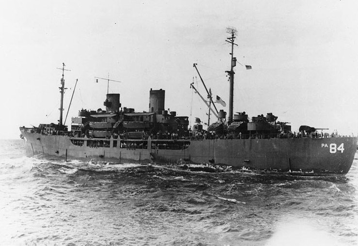 photographed from , probably while replenishing units of the Third Fleet off Japan in July or August 1945. Note the fenders rigged to port and the mast and director of the destroyer steaming alongside to starboard.